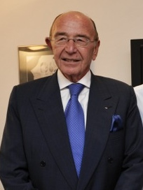 Alex Giladi, International Olympic Committee member